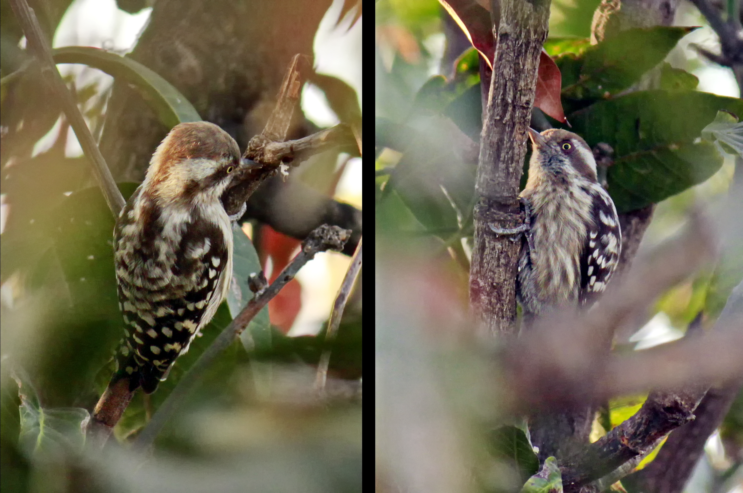 Brown-capped Pygmy Woodpecker Yungipicus nanus taken in Haldwani, Uttarakhand, India